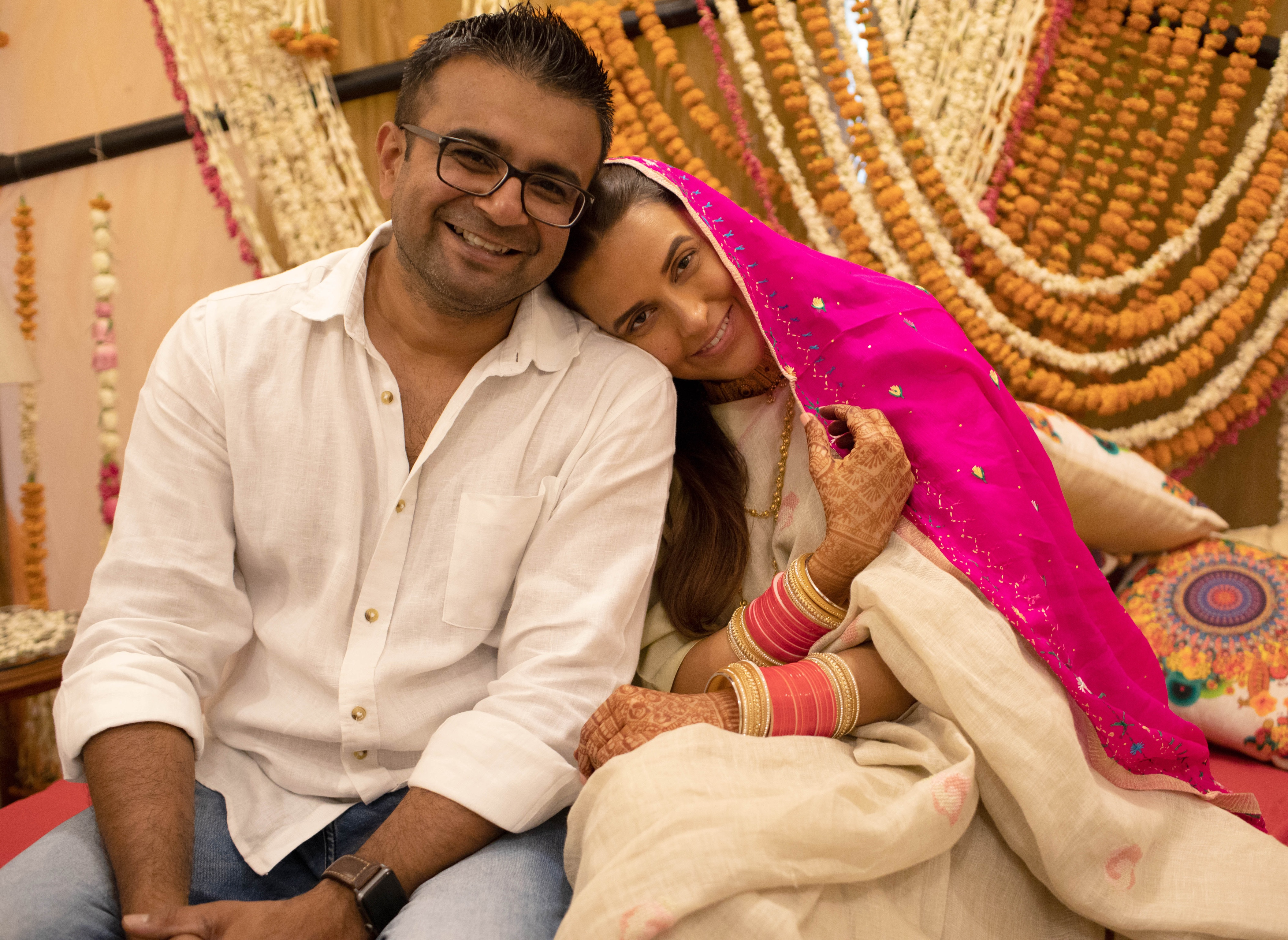 Neha Dhupia at her wedding in May 2018 with Ashish Parmar